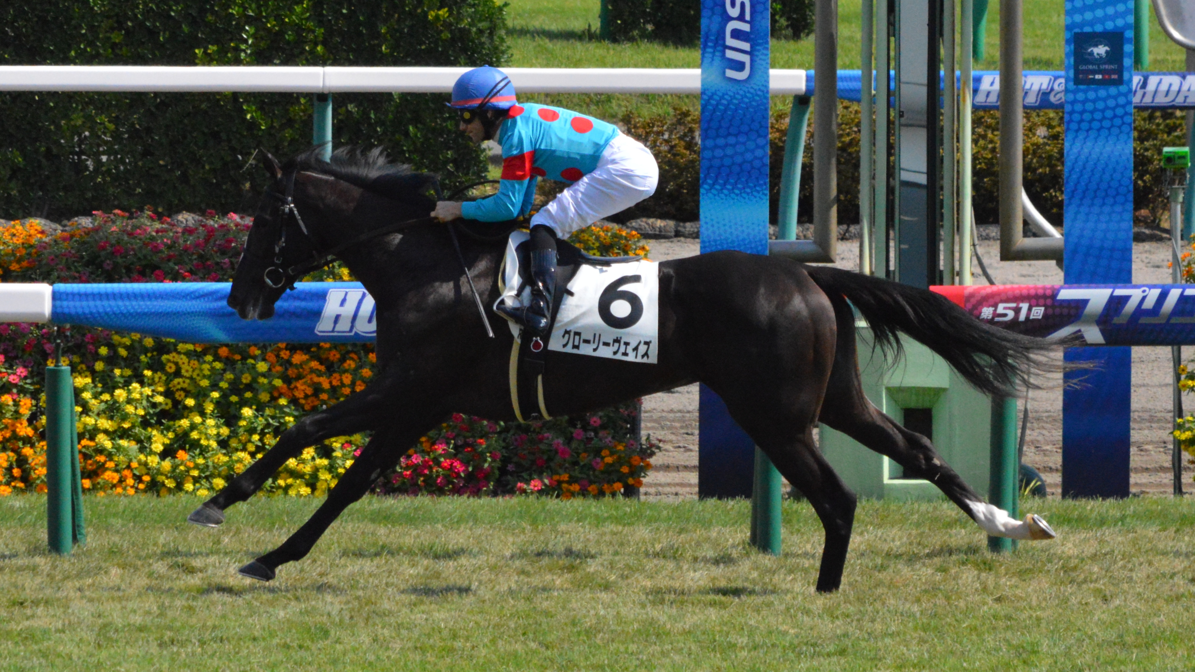 Japanese race horse Glory Vase at Nakayama racecourse. Nakayama (JPN) 1 Oct 2017Maiden (Turf) 1m1f Firm RankHorse NameOddsAgeWgtJockeyTrainer1stGlory Vase (JPN)7/10FC28-7Mirco DemuroKazuto Ozeki2ndMikki Hide (JPN)29/10C28-7Norihiro YokoyamaTakanori KikuzawaOthers are omitted. (14 horses entered in a race.)